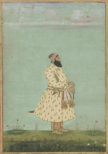 Safdarjung, second Nawab of Awadh, Mughal dynasty. India. early 18th century. Color and gold on paper.